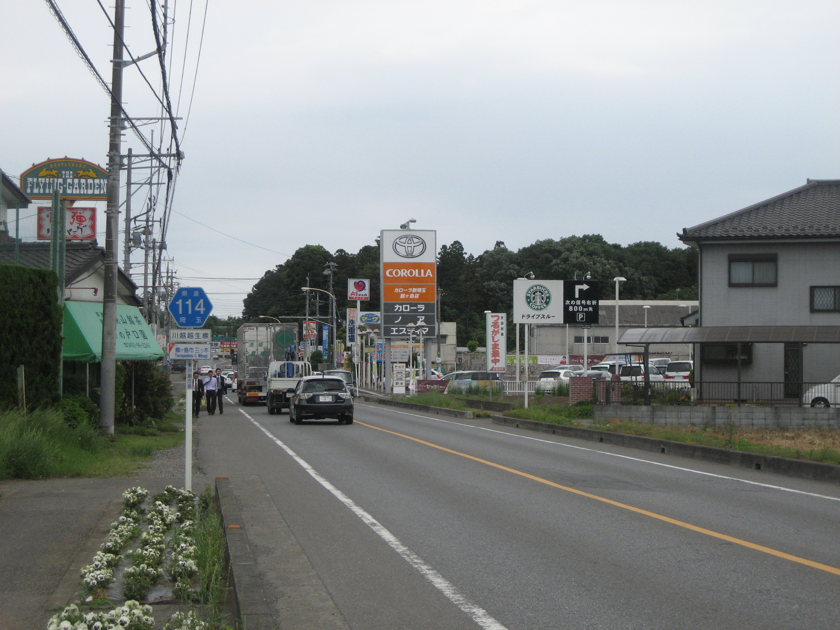 The Saitama Prefectural Road Route 114 in Tsurugashima City